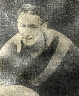 Photo of Ken Rosewarne in 1932